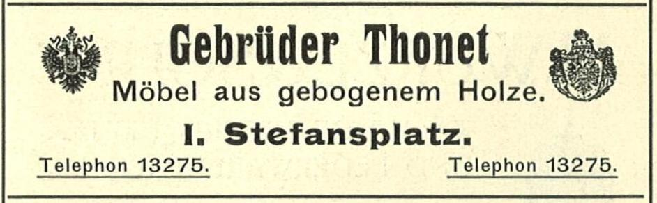 old advertisement of a purveyor to the Imperial and Royal Court of Austria-Hungary.